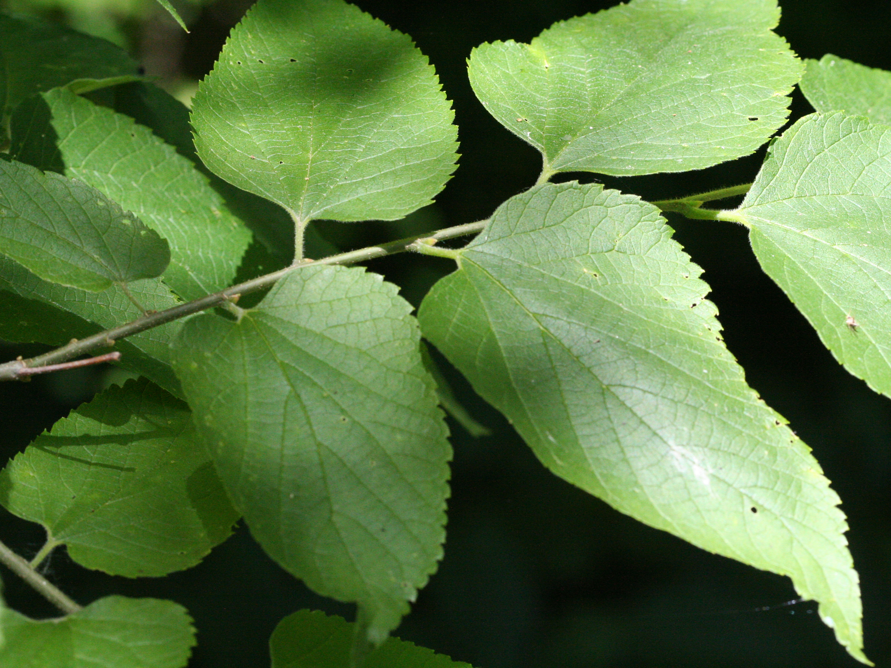 Celtis occidentalis L. - common hackberry - Onondaga County, New York